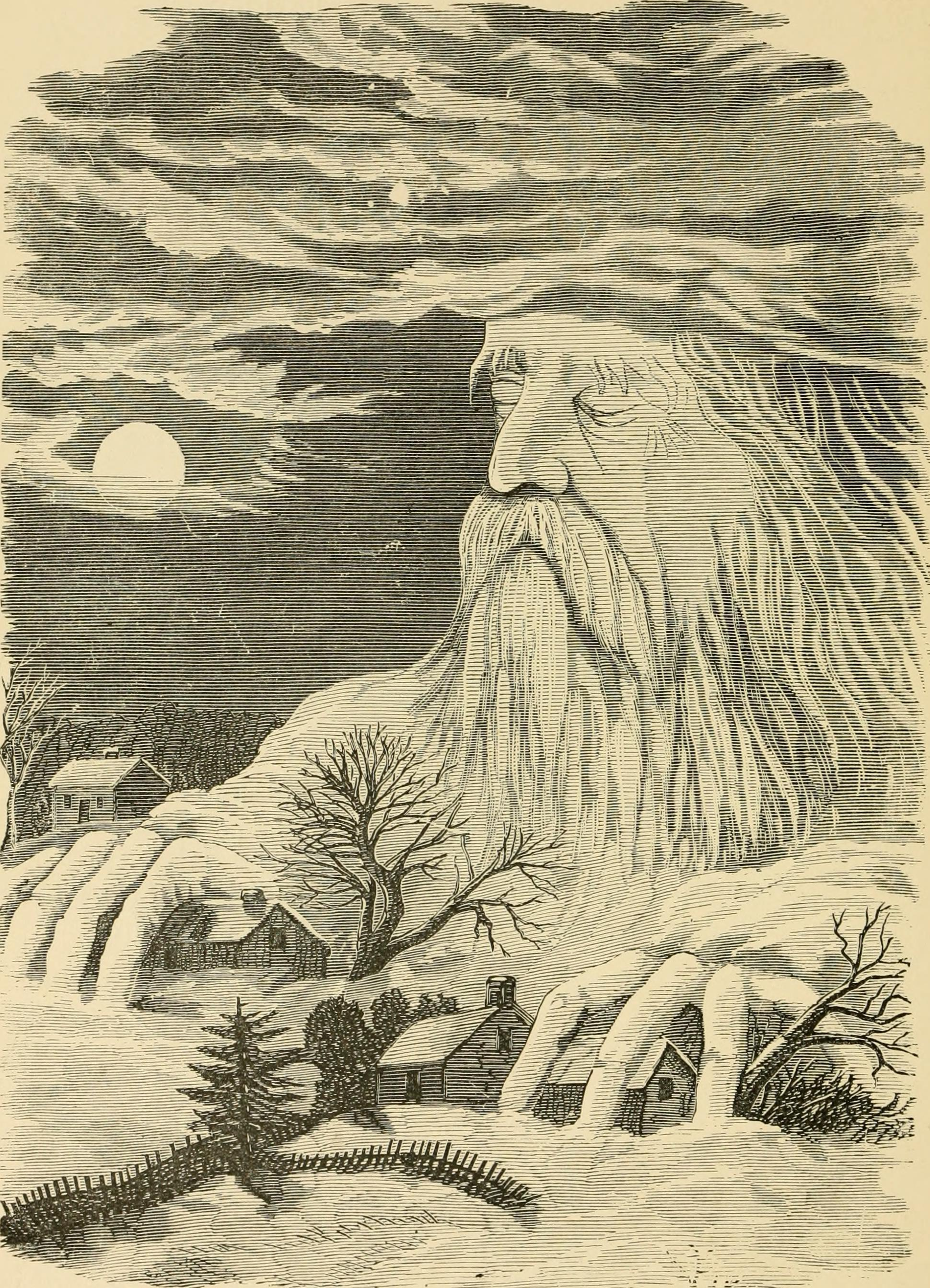 Title: Rhymes and jingles Year: 1903 (1900s) Authors: Dodge, Mary Mapes, 1830-1905 Subjects: Publisher: New York, Scribner Text Appearing Before Image: Soon, a dripping, sobbing, muddy boyRan home across that lonesome bog; While placidly smiling on the shore Squatted that thoroughly well-meaning fro 19^ RHYMES AND JINGLES. Text Appearing After Image: THE FROST-KING. igg THE FROST-KING. Oho I have you seen the Frost-King, A-marching up the hill ?His hoary face is stern and pale, His touch is icy chill.He sends the birdlings to the South, He bids the brooks be still;Yet not in wrath or cruelty He marches up the hill. He will often rest at noontime, To see the sunbeams play ;And flash his spears of icicles, Or let them melt away.Hell toss the snow-flakes in the air, Nor let them go nor stay ;Then hold his breath while swift they fall. That coasting boys may play. He 11 touch the brooks and rivers wide, That skating crowds may shout;Hell make the people far and near Remember hes about.Hell send his nimble, frosty Jack — Without a shade of doubt —To do all kinds of merry pranks, And call the children out ; Hell sit upon the whitened fields,And reach his icy hand 200 RHYMES AND JINGLES. O er houses where the sudden coldFolks cannot understand. The very moon, that ventures forthFrom clouds so soft and grand, Will stare to see the sti